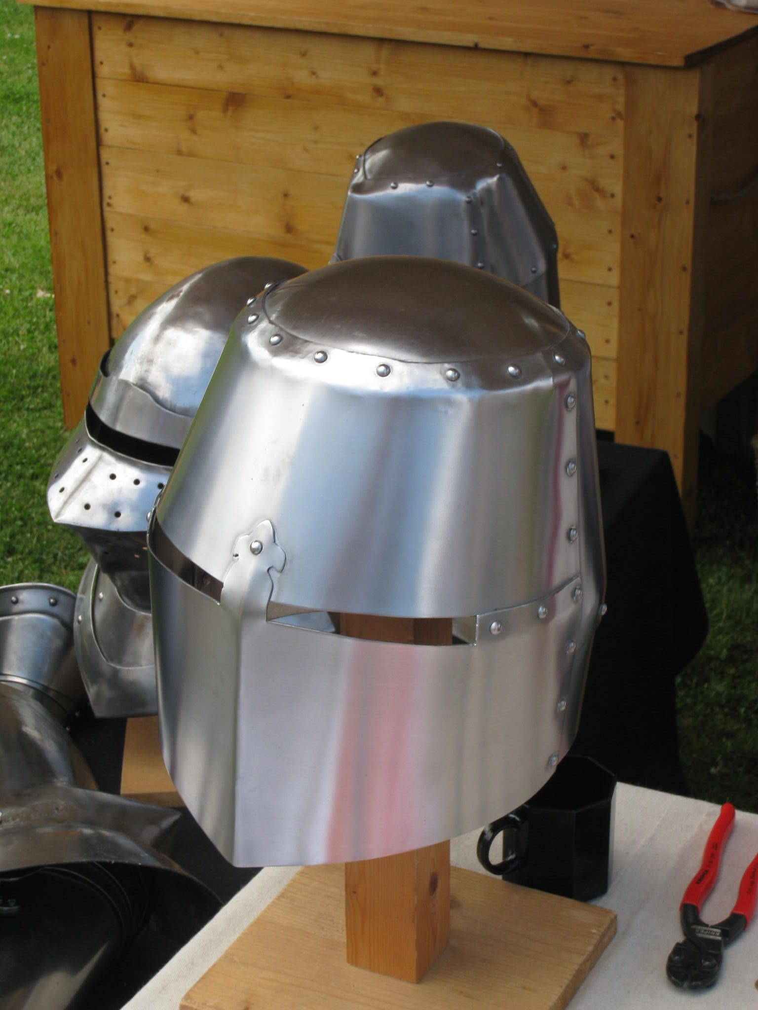 Middeleeuwse helm